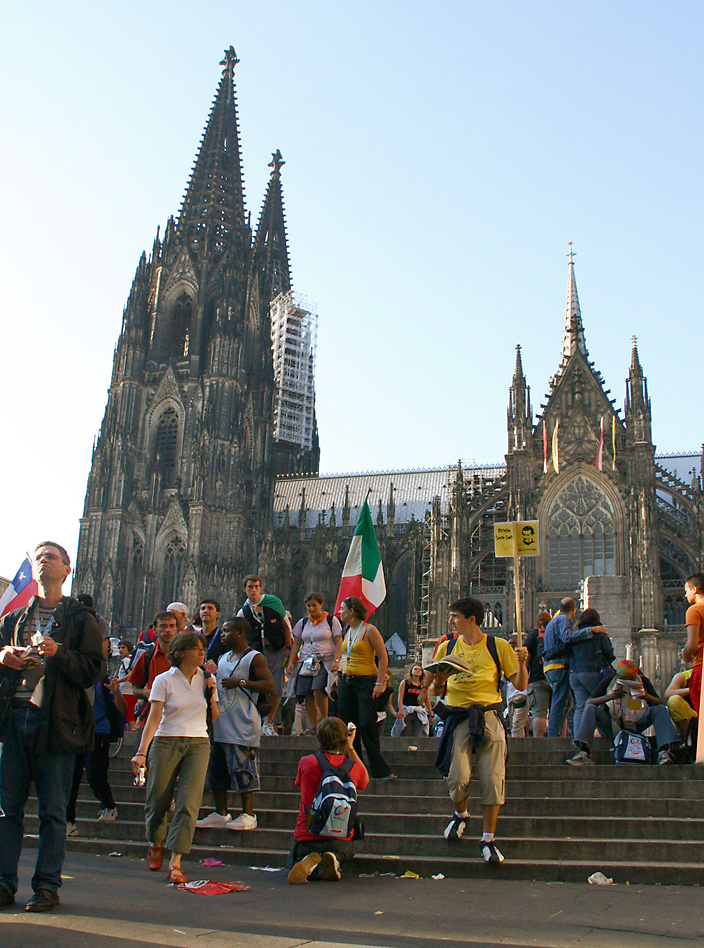 World Youth Day 2005 in Cologne, Germany date: 2005-08-17 author: Elke Wetzig (elya)